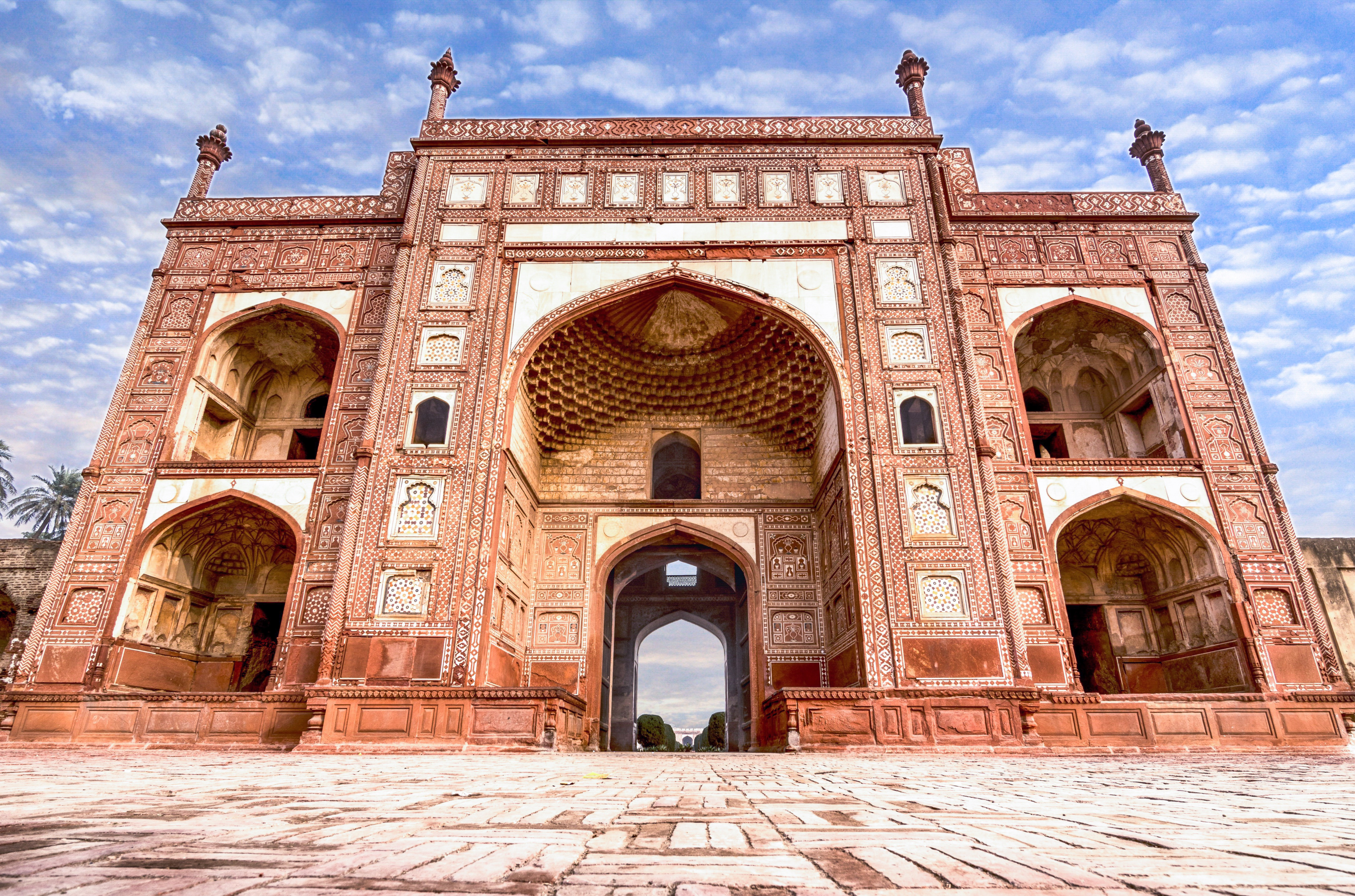 Akbari Sarai This is a photo of a monument in Pakistan identified as the PB-40